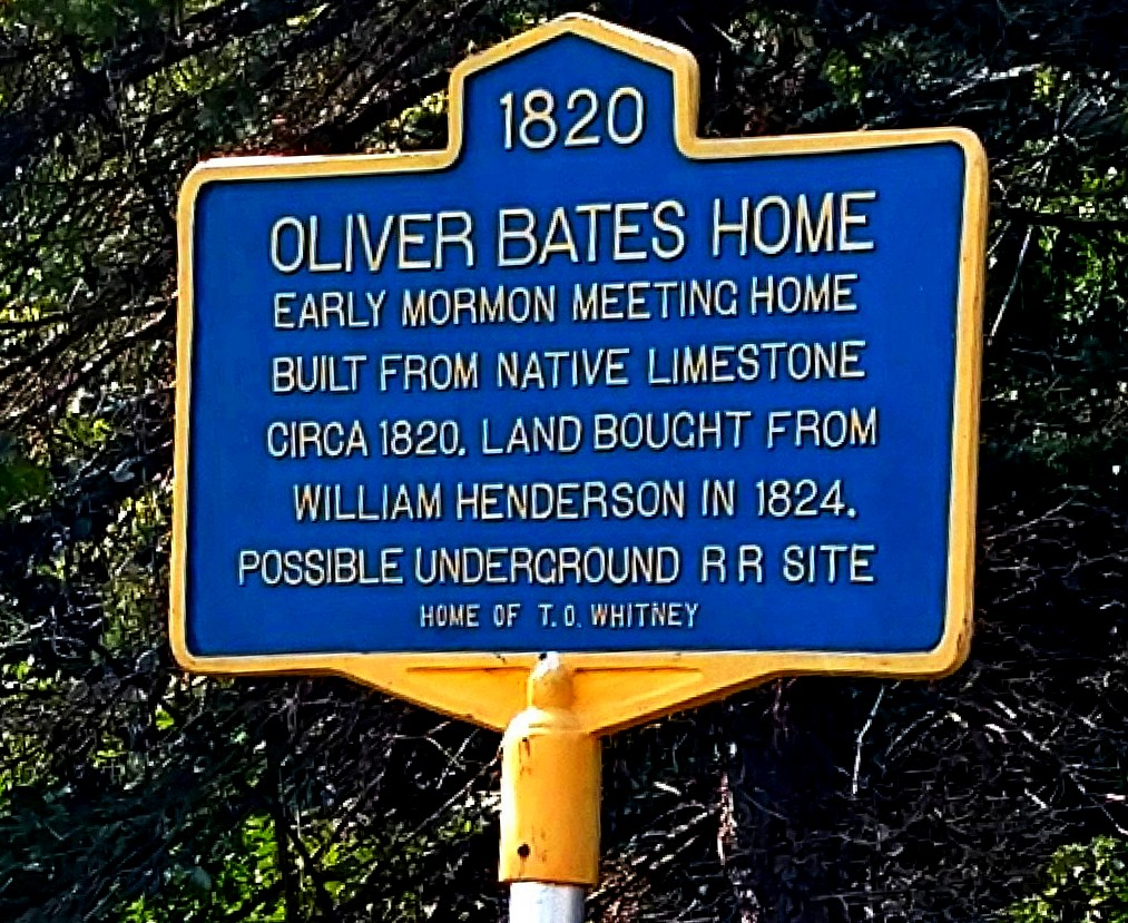 Historical Marker in front of Oliver Bates Home in Henderson, New York.